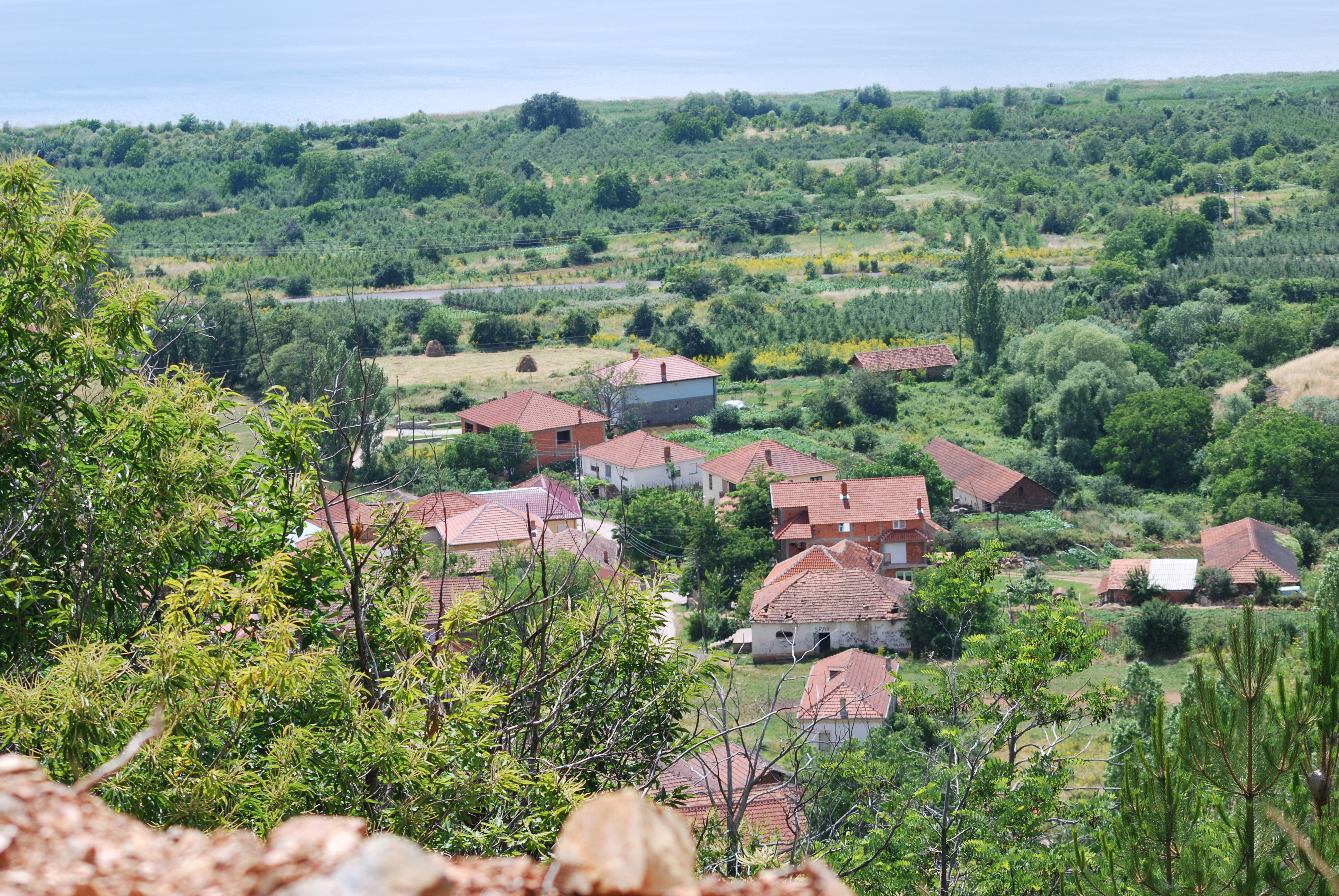 Slivnica, Macedonia